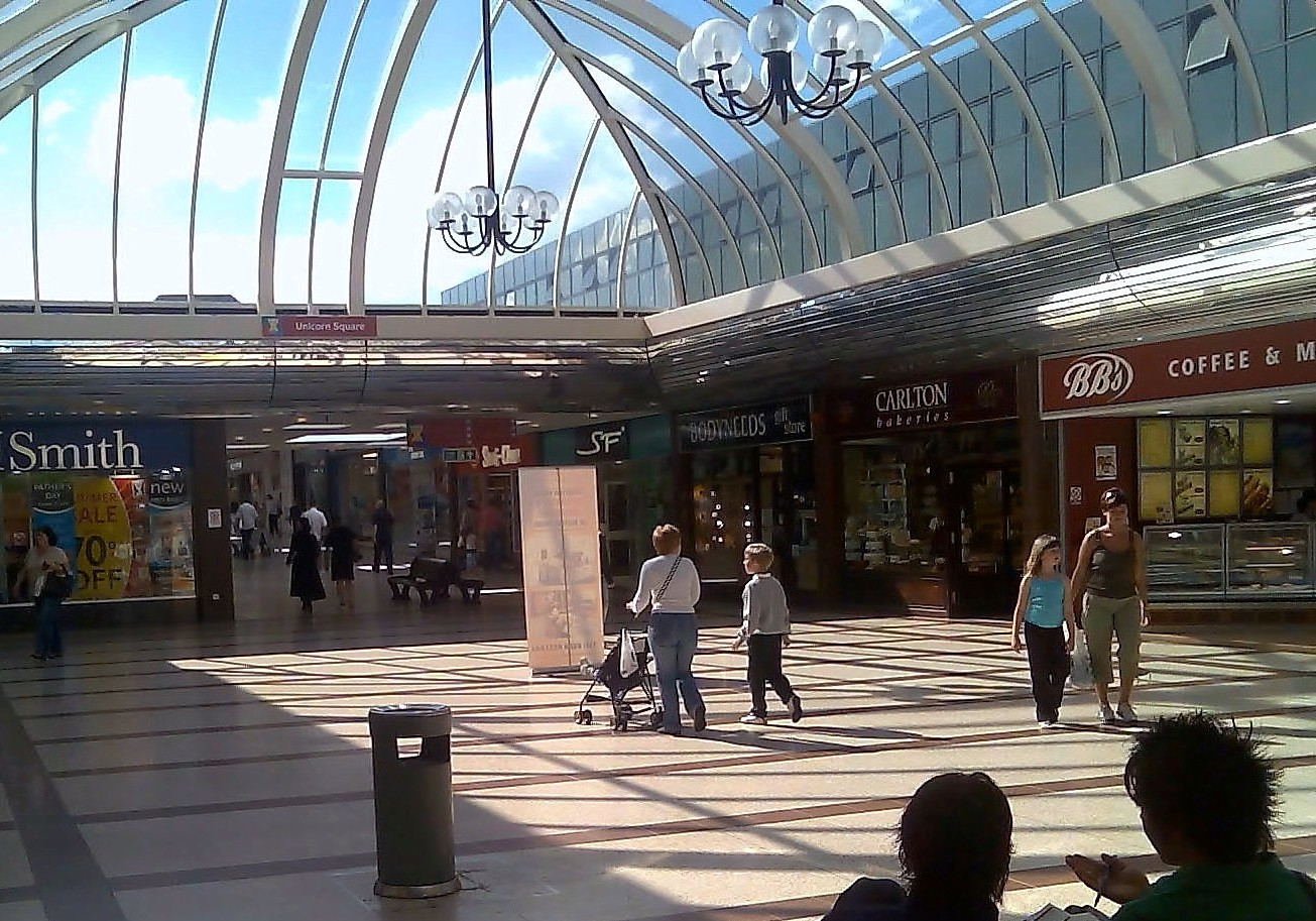 Image of Unicorn Square, Kingdom Centre, Glenrothes